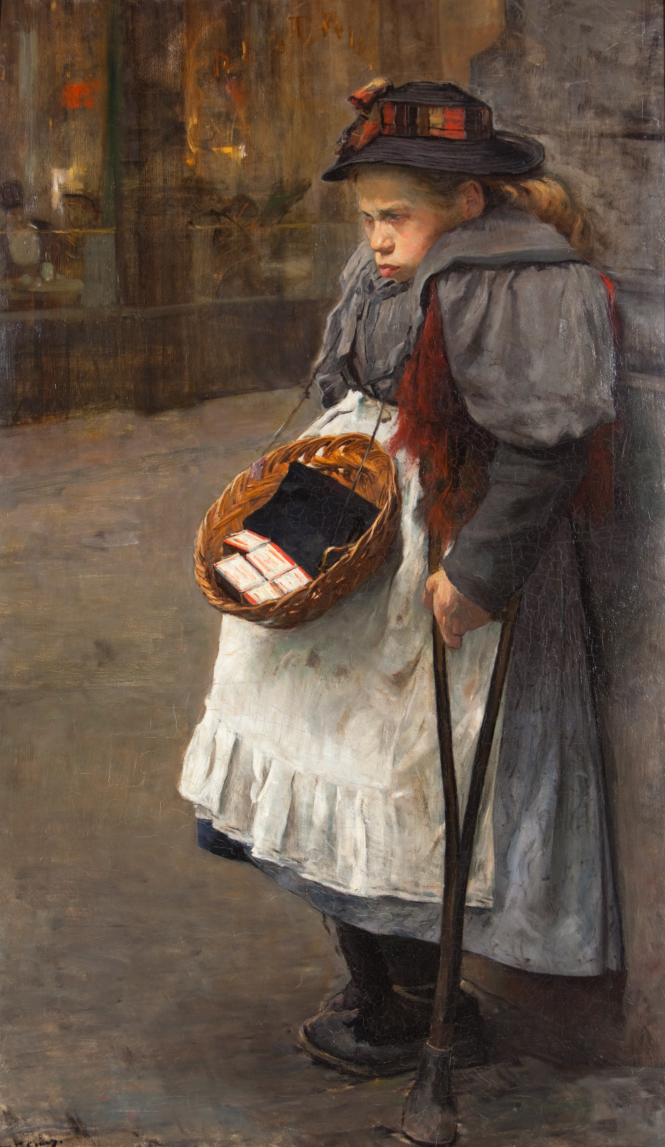 Matchstick girl. The painter Floris Arntzenius (1864-1925) lived and worked much of his life in The Hague, the Netherlands. He painted many city scapes: bridges, streets and the various markets held in The Hague. Especially the narrow and busy street called Spuistraat - one of The Hague's well known shopping streets - was a favorite theme of Arntzenius and his audience. On this painting he depicted a matchstick girl, which was an exception in the work of Arntzenius. Although we may find working class types on his city scapes, usually there are no homeless people and beggars. The disabled girl, who sold matches, is probably standing at one of the entrances of the 'Passage' shopping mall, which opened in 1885.